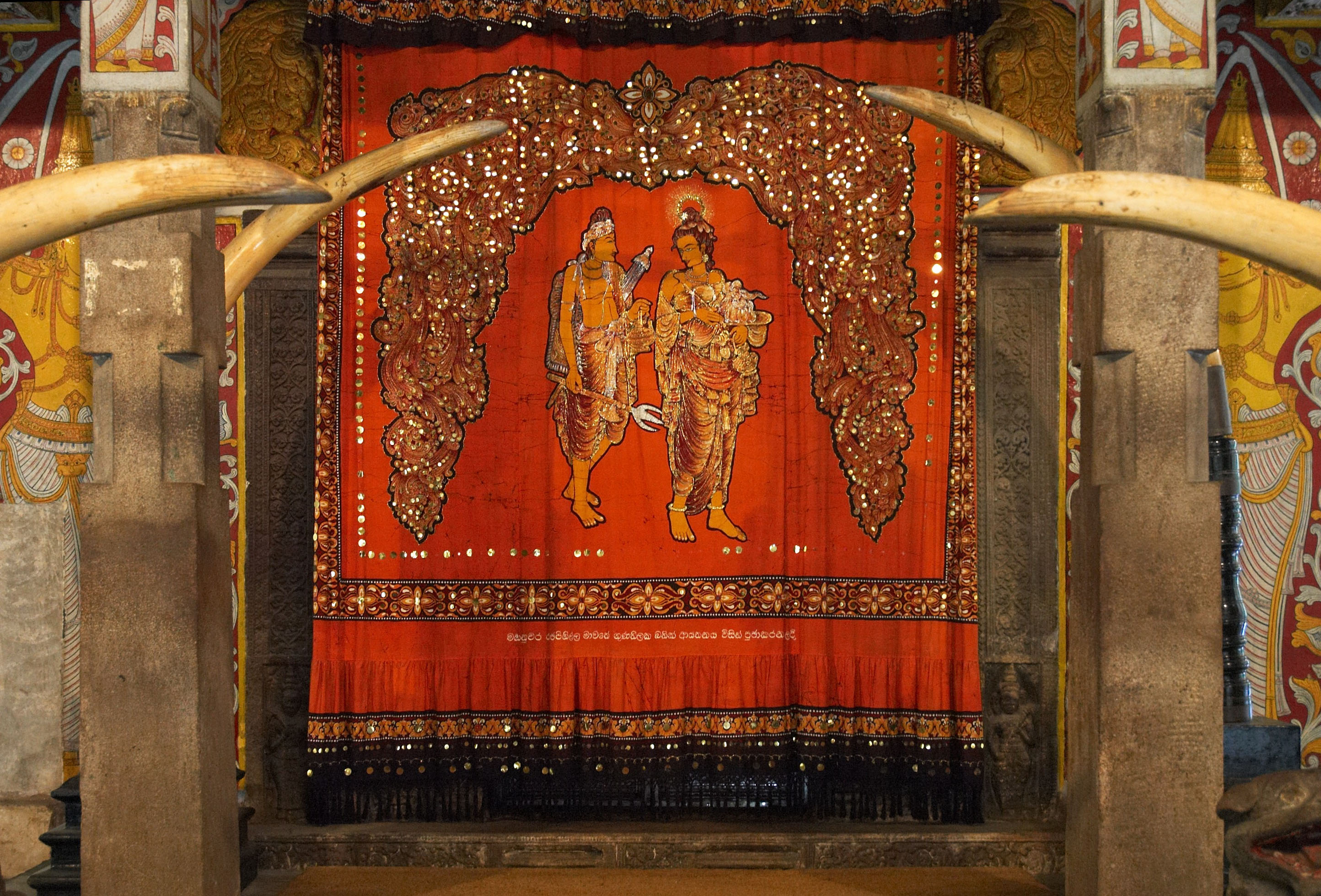 Temple Dalada Maligawa in the city Kandy in Sri Lanka - Google Maps - Google Earth